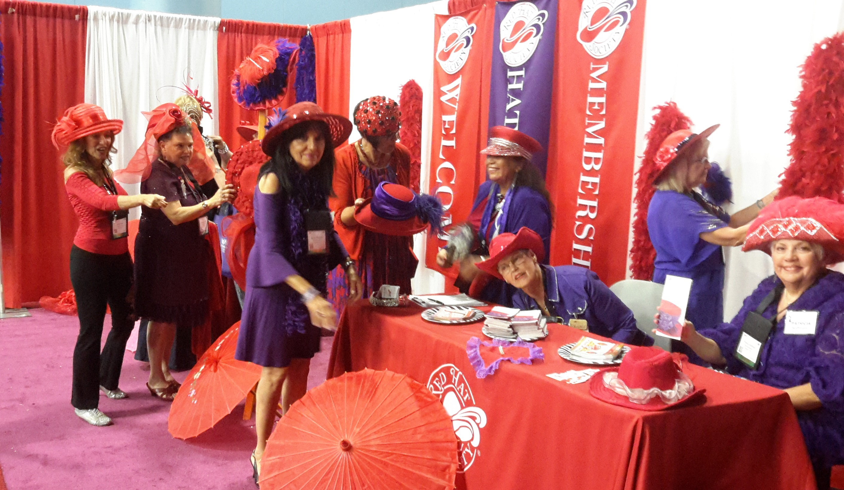 The Red Hat Society booth at the AARP convention in Miami, Florida in May of 2015. Other information Cropped from the original.